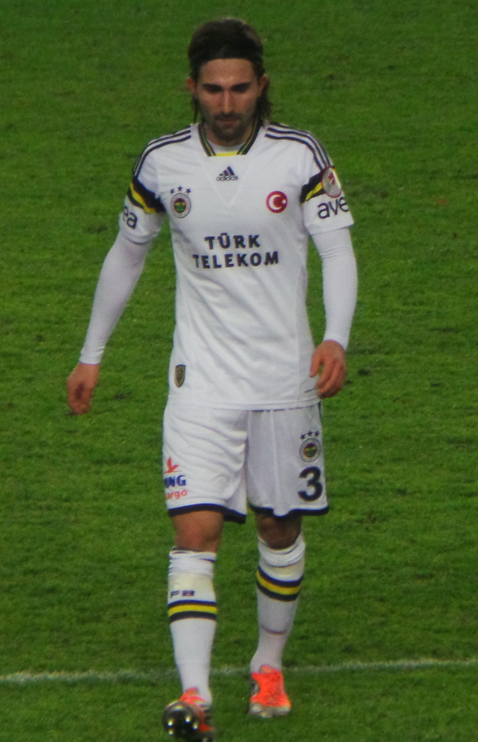 Hasan Ali Kaldırım with F.B playing against Fethiyespor.